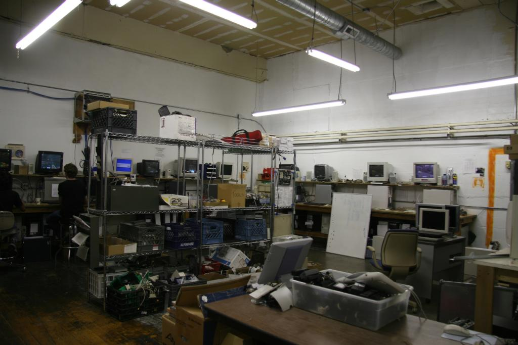 Free Geek's Build Lab